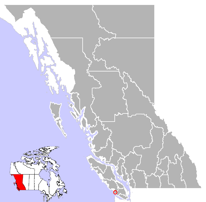 Location of Bamfield